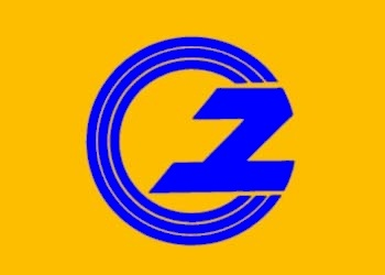 Flag of Yugawa Fukushima